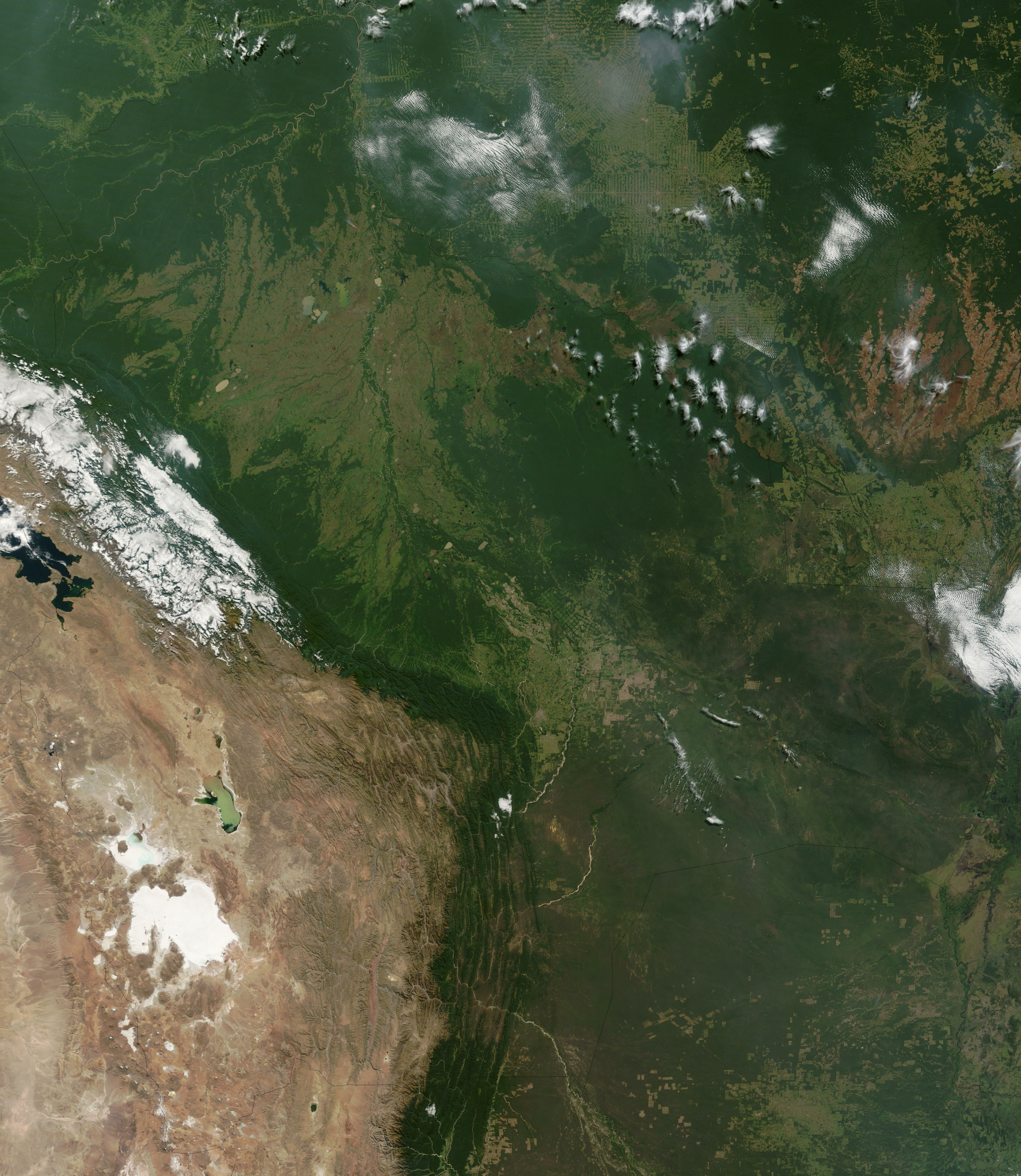 Satellite image of Bolivia in June 2002. Normally obscured by clouds, Bolivia is amazingly clear in this true-color MODIS image acquired June 20, 2002. Bounded by Brazil to the north and east, Paraguay and Argentina to the south, and Peru and Chile to the west, Bolivia is completely landlocked. A good portion of Bolivia is dominated by the Andes, but it also lays claim to lush forests and pasture lands in the Amazon Basin.Bolivia's agricultural crops include soybeans, coffee, coca, cotton, corn, sugarcane, rice, potatoes, and timber. A number of agricultural plots are visible in central Bolivia. Some large plots are arranged in a circular star shape, with water sources at the center and the agricultural plots radiating outwards. Adjacent to them (down and to the right) are more traditional shaped plots (more rectangular).One of Bolivia's main exports is tropical timber. Visible in this image are areas where the timber has been harvested. The deforestation patterns tend to follow major roads first, then smaller roads adjoining main roads. These patterns resemble the growth of ice crystals and are best viewed in the higher resolutions of this image. Deforestation is visible along the green edge of the Andes in central Bolivia.